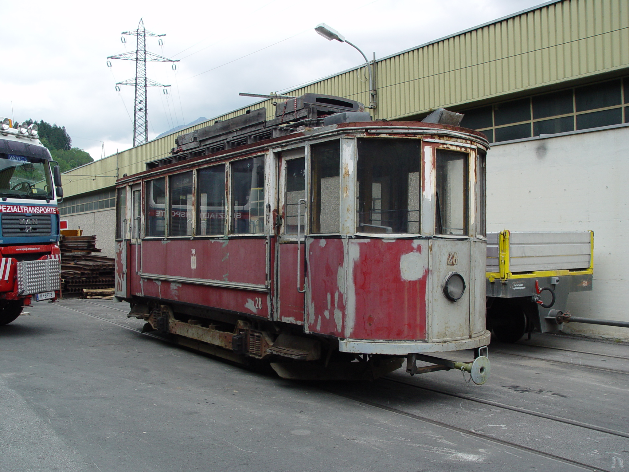 Motor car 28 of the Innsbrucker Verkehrsbetriebe ex-Basel, Switzerland 32